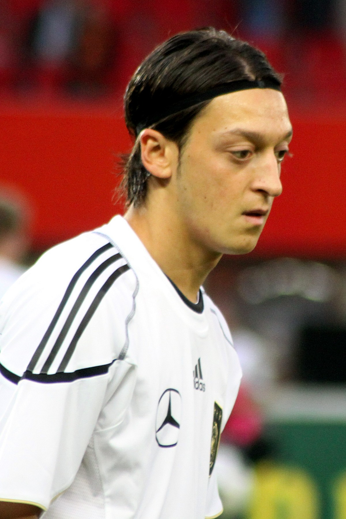 Mesut Özil (Real Madrid), german national football team